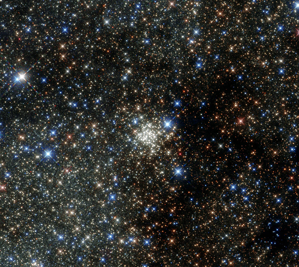 This new NASA/ESA Hubble Space Telescope image presents the Arches Cluster, the densest known star cluster in the Milky Way. It is located about 25 000 light-years from Earth in the constellation of Sagittarius (The Archer), close to the heart of our galaxy, the Milky Way. It is, like its neighbour the Quintuplet Cluster, a fairly young astronomical object at between two and four million years old. The Arches cluster is so dense that in a region with a radius equal to the distance between the Sun and its nearest star there would be over 100 000 stars! At least 150 stars within the cluster are among the brightest ever discovered in the the Milky Way. These stars are so bright and massive, that they will burn their fuel within a short time, on a cosmological scale, just a few million years, and die in spectacular supernova explosions. Due to the short lifetime of the stars in the cluster, the gas between the stars contains an unusually high amount of heavier elements, which were produced by earlier generations of stars. Despite its brightness the Arches Cluster cannot be seen with the naked eye. The visible light from the cluster is completely obscured by gigantic clouds of dust in this region. To make the cluster visible astronomers have to use detectors which can collect light from the X-ray, infrared, and radio bands, as these wavelengths can pass through the dust clouds. This observation shows the Arches Cluster in the infrared and demonstrates the leap in Hubble’s performance since its 1999 image of same object.